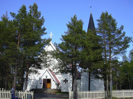 The Sami Church in Inari, Finland